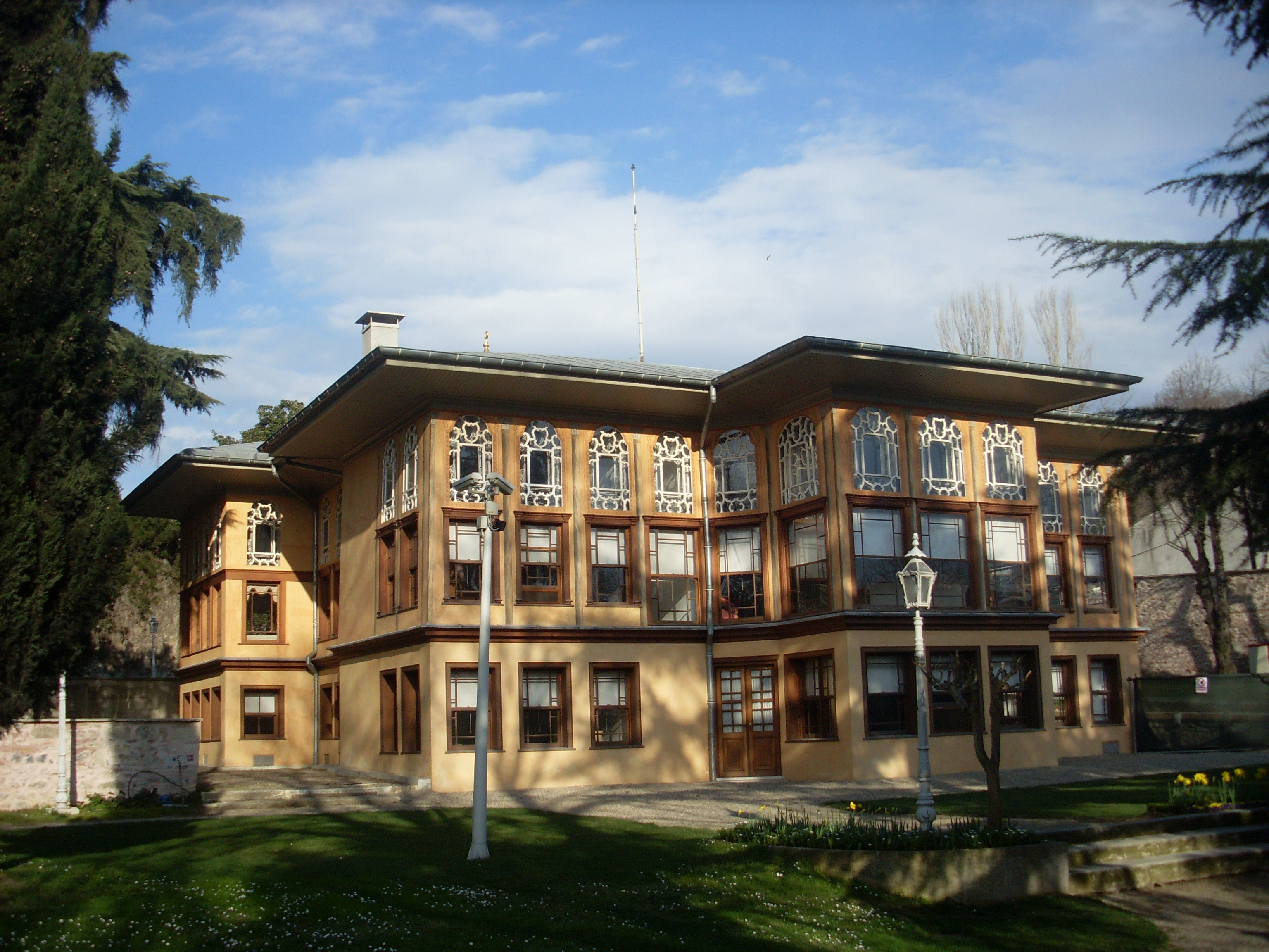 İstanbul - Aynalıkavak Palace - Mart 2013 - r4